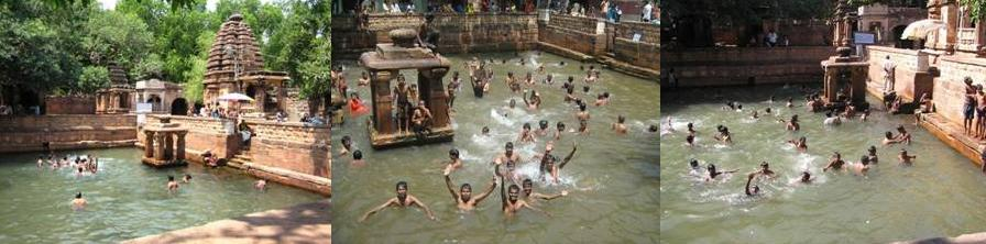 Mahakuta Temple Tank Source and Author : Manjunath Doddamani, Gajendragad / Hubli, Karnataka(north), India.